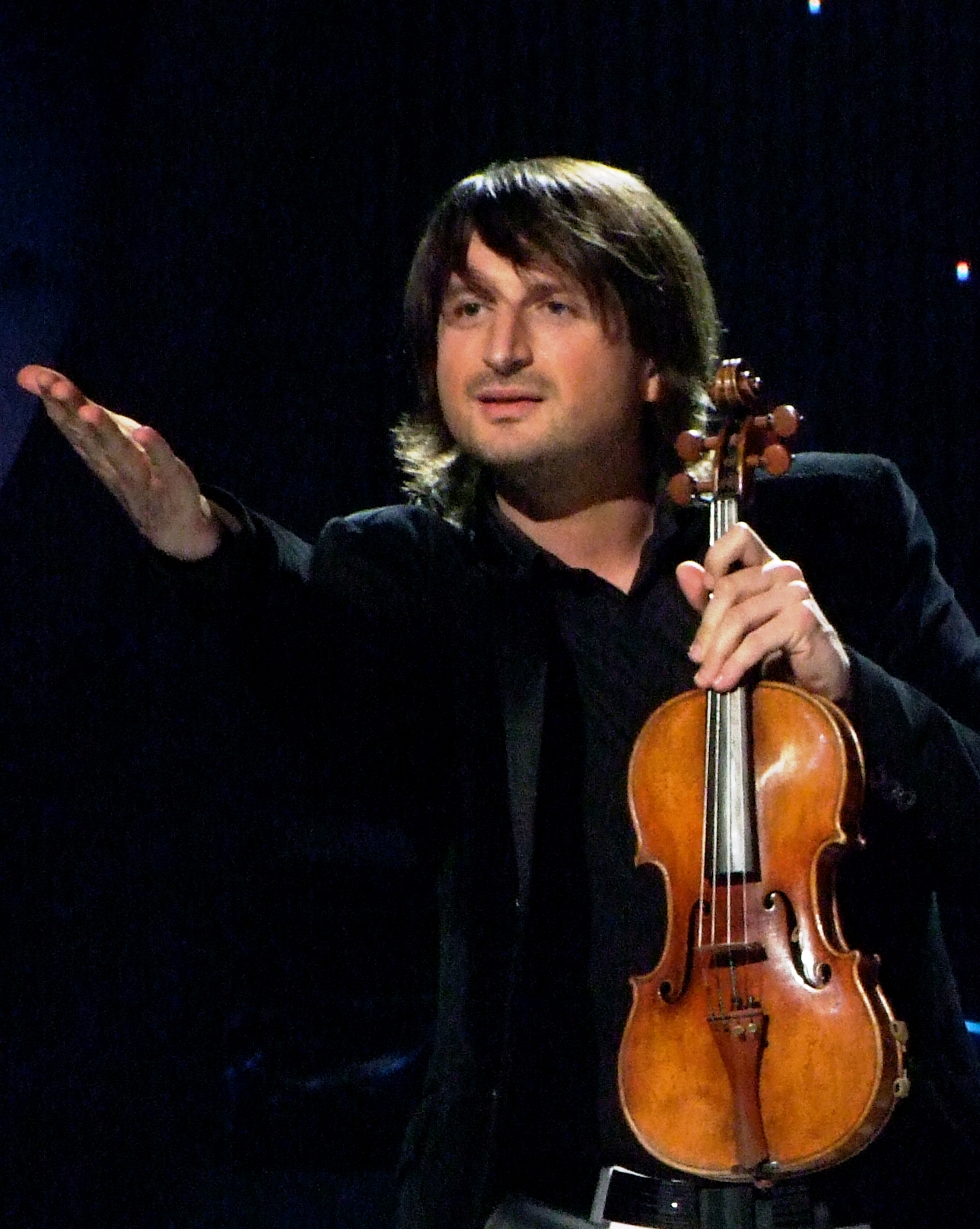 Edvin Marton 2008-05-20